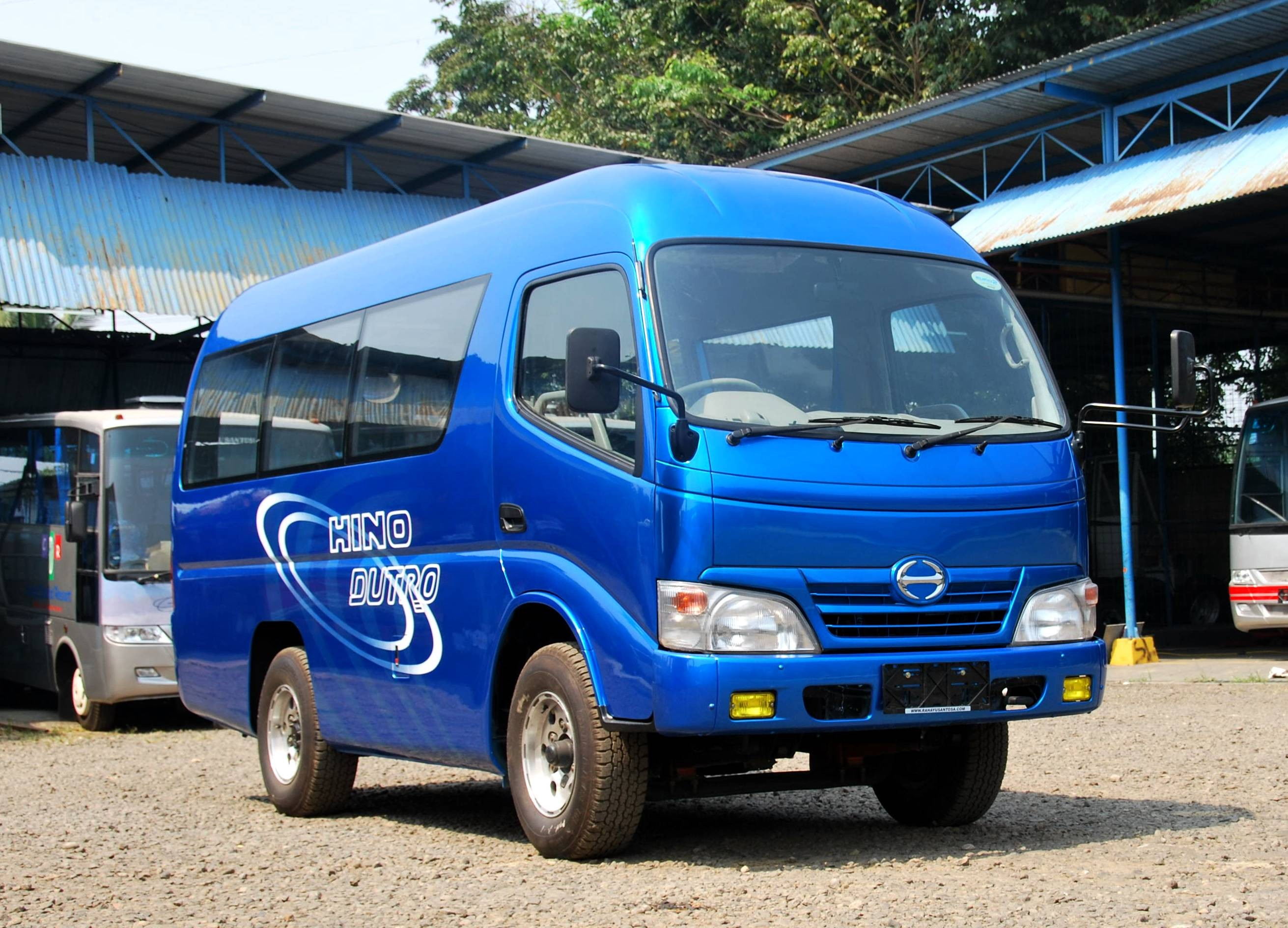 Hino Dutro 110SD Microbus (WU302) by local coachbuilder in Indonesia.